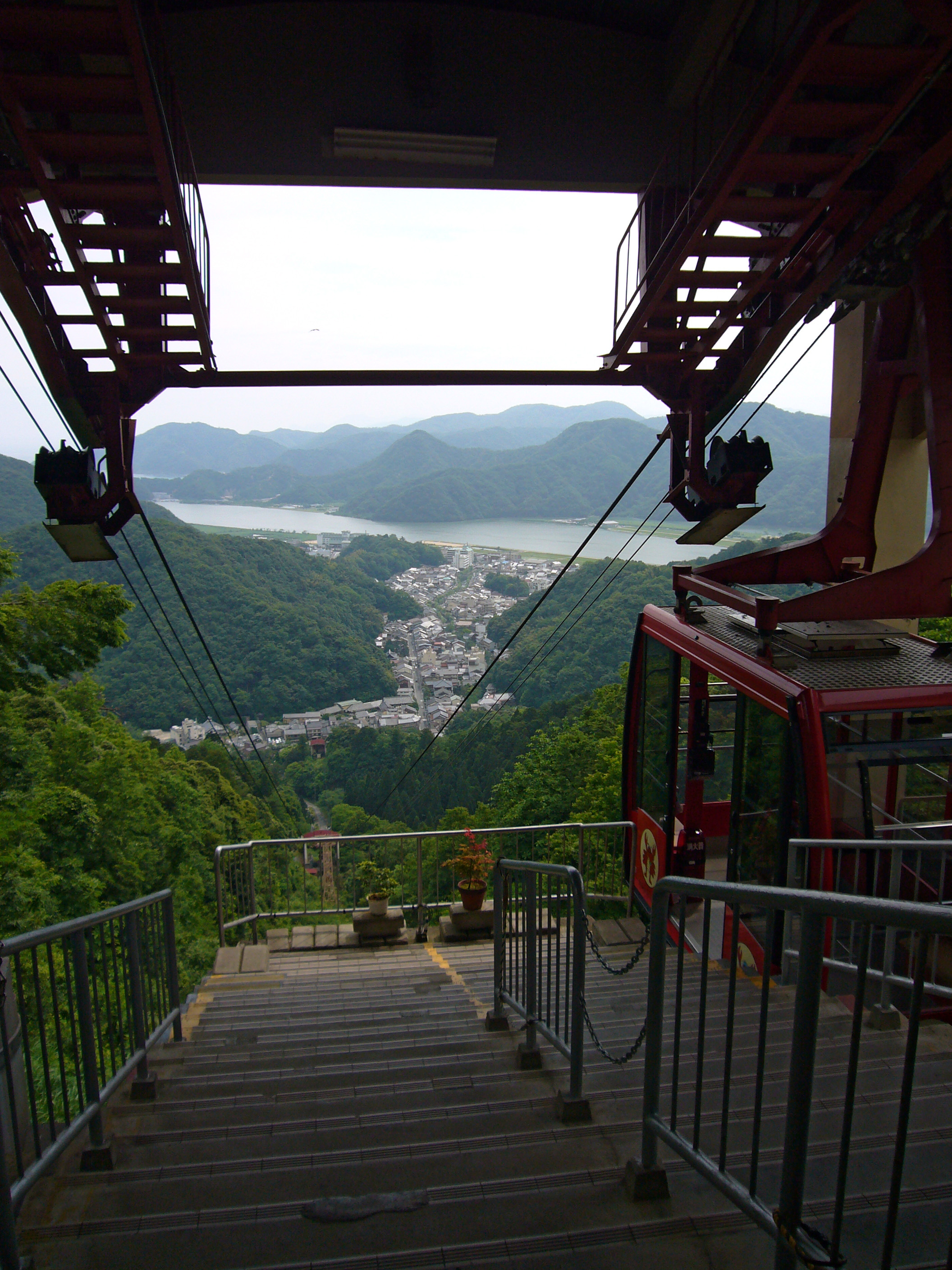 Kinosaki Ropeway, Toyooka, Hyogo prefecture, Japan